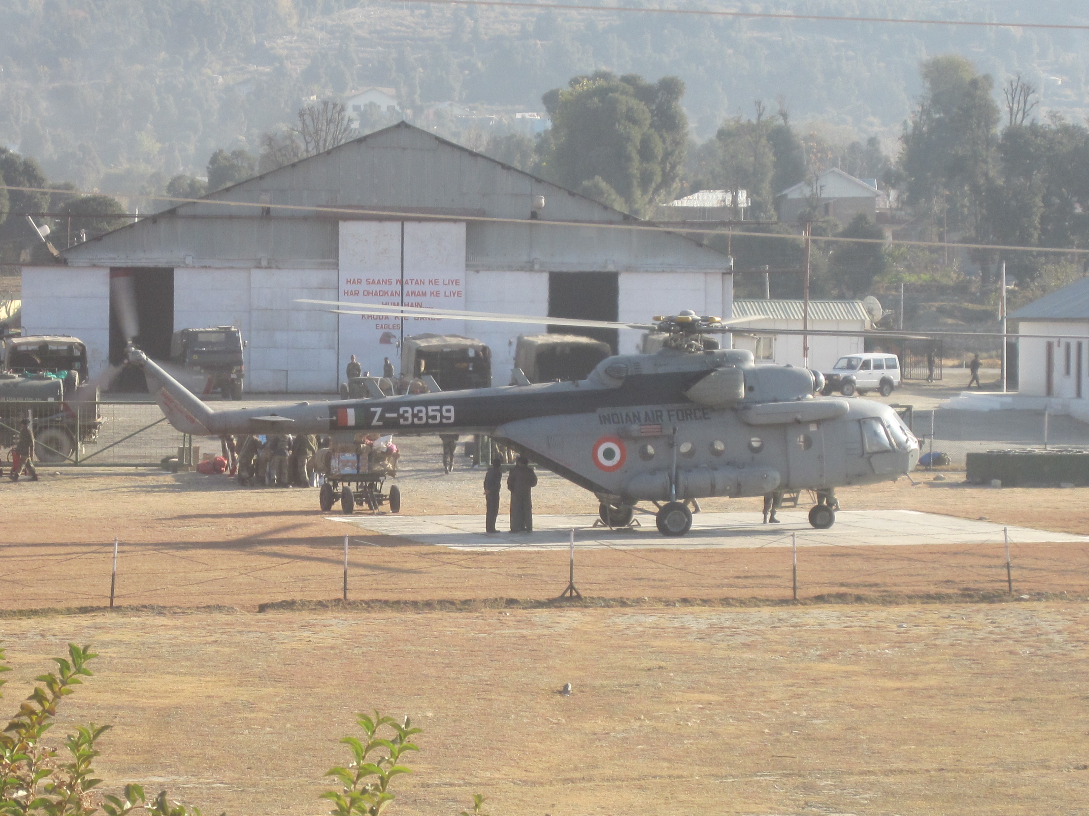 Indian Air Force Mi-8 in Kishtwar, Jammu & Kashmir.